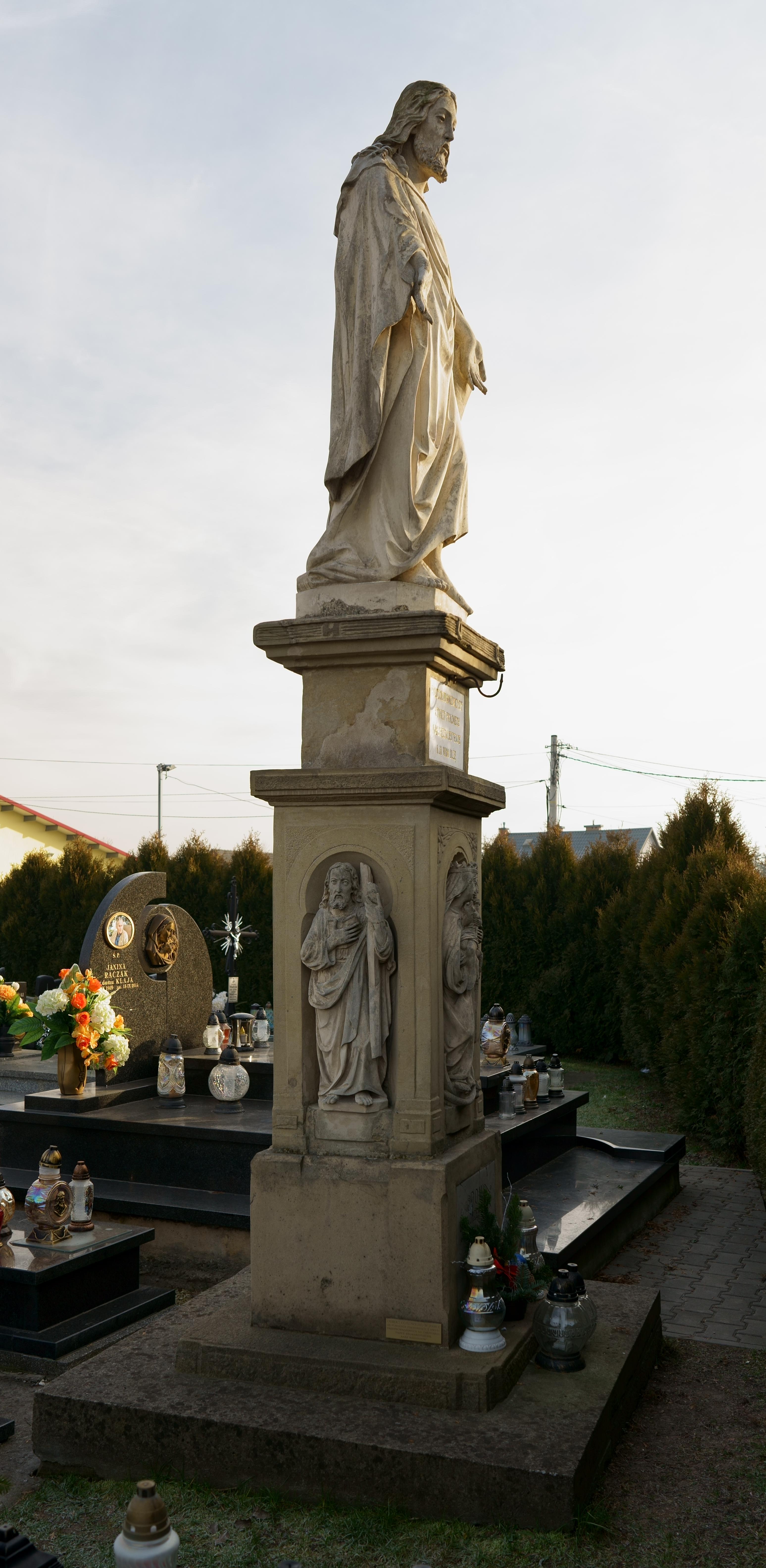 Saints Lawrence and Margaret Church in Radziszów